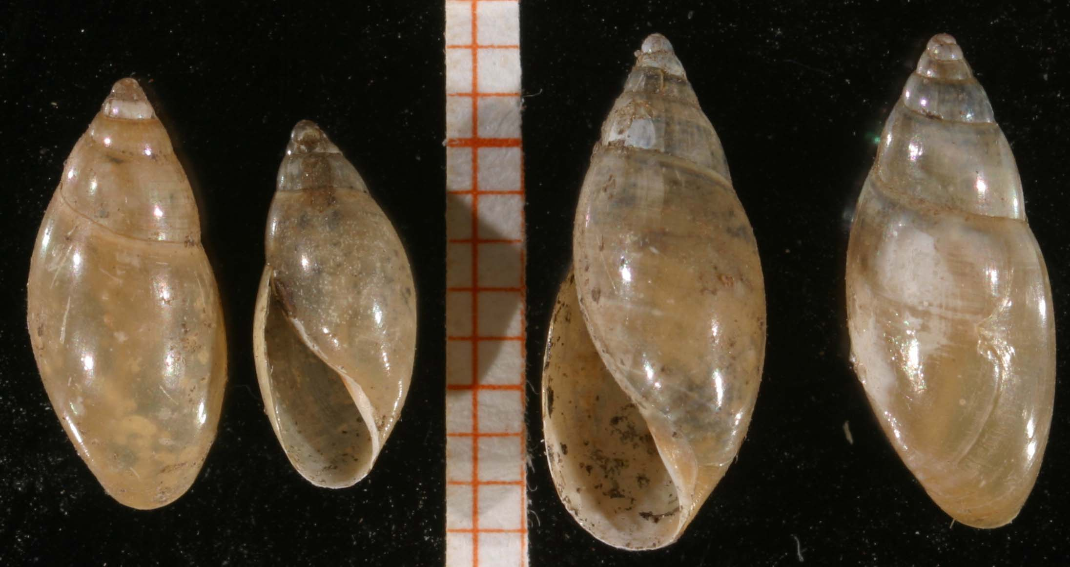 Photo of shells of Aplexa hypnorum. Scale in mm. Locality: Germany: Kieler Bucht near Laboe. Date: ?.